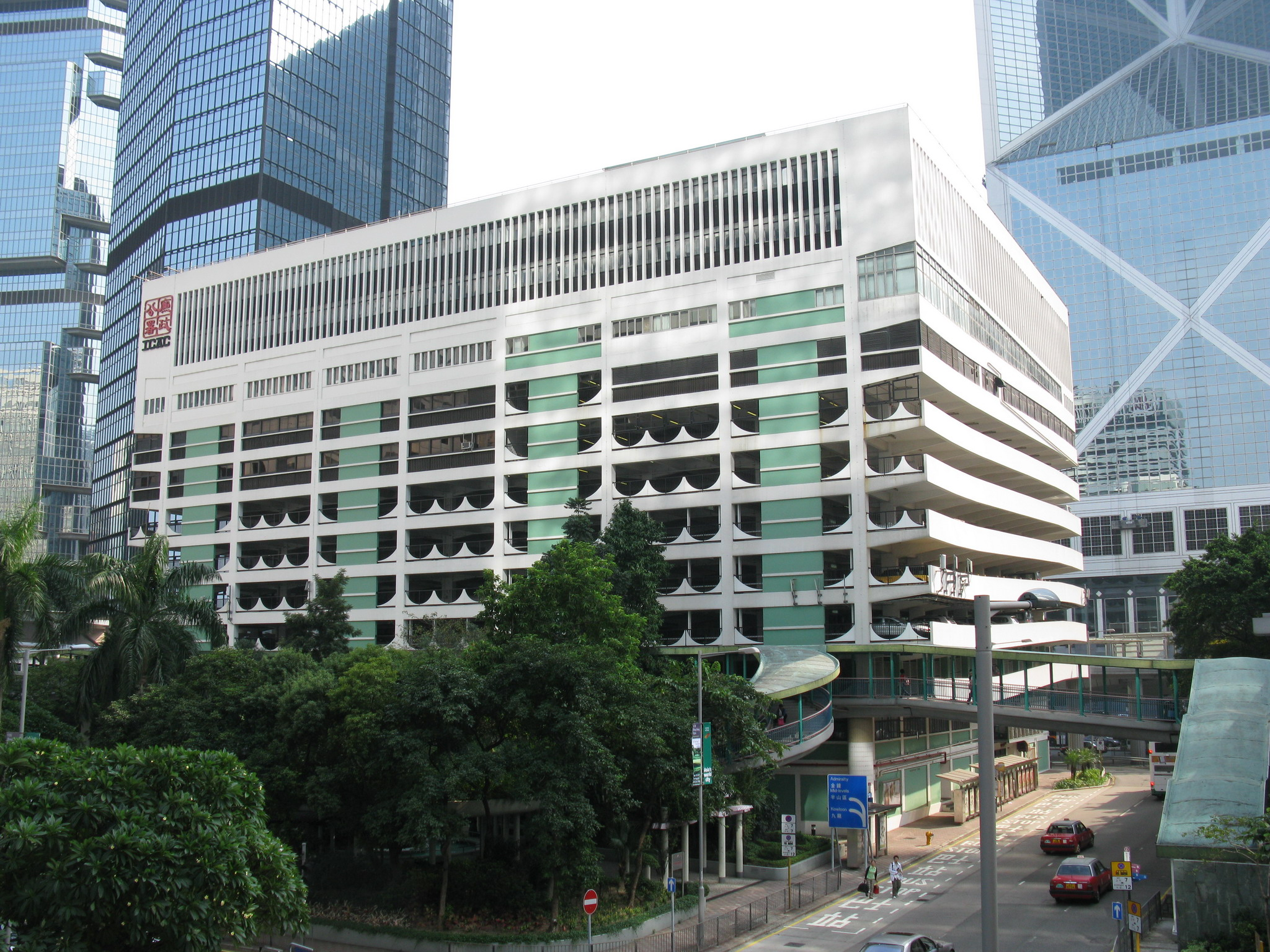 美利道停車場大廈 Murray Road Carpark Building